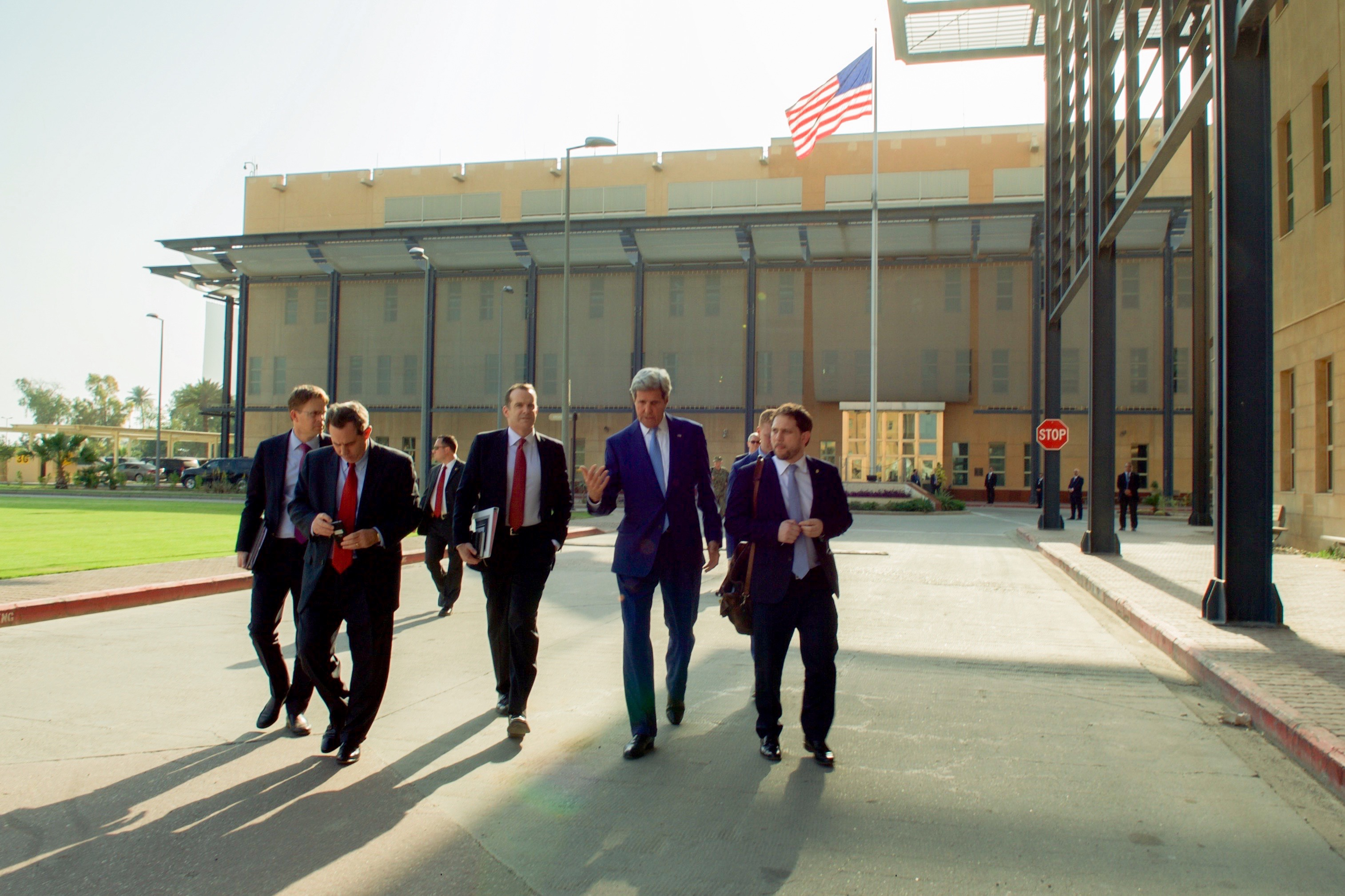 U.S. Secretary of State John Kerry walks with his staff across the U.S. Embassy Compound in Baghdad, Iraq, on April 8, 2016, following a series of meetings with Iraqi Prime Minister Haider Al-Abadi, Foreign Minister Ibrahim al-Jaafari, and Kurdistan Regional Government Prime Minister Nechirvan Barzani. [State Department photo/ Public Domain]